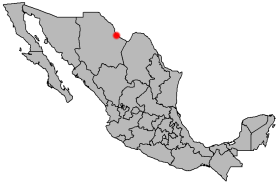 Location of Manuel Ojinaga, Chihuahua, Mexico